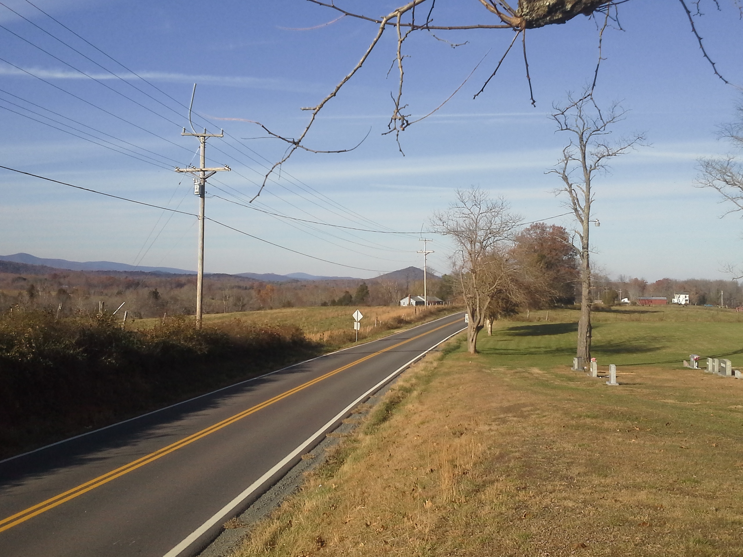 Battle Mountain (center) mage taken from Culpeper County on Richmond